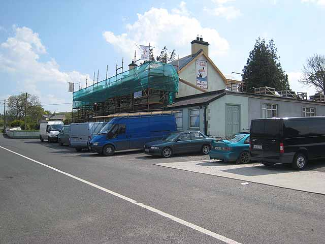 The Mayfly, Ballinafad, near to Ballinafad and Ballaghboy, Sligo, Ireland. Pub undergoing renovation. Trade must have suffered since the main N4 Dublin to Sligo road by-passed the village.